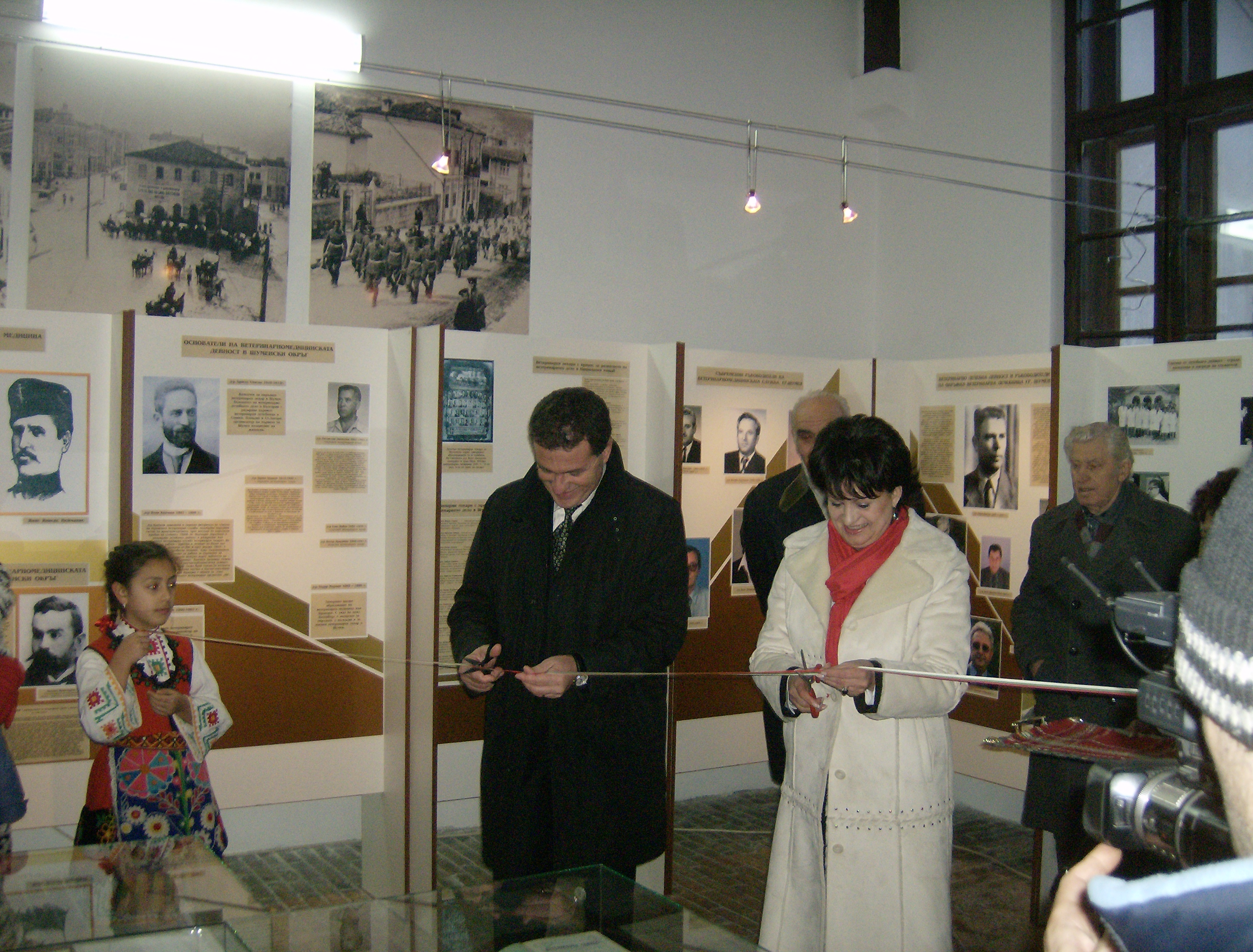 Veterinary Museum Shumen